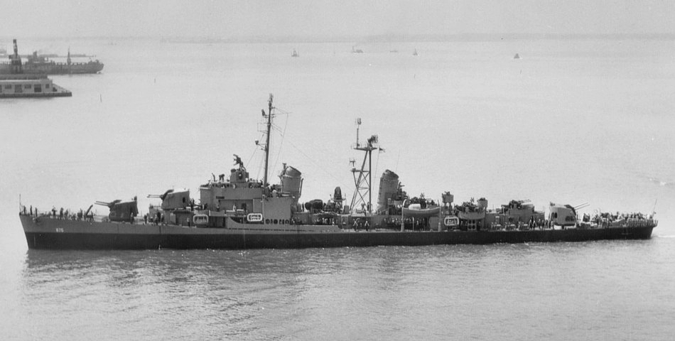 The U.S. Navy destroyer USS Henry W. Tucker (DD-875) in 1945. She is fitted as a radar warning destroyer, carrying a mast with the SP-radar.